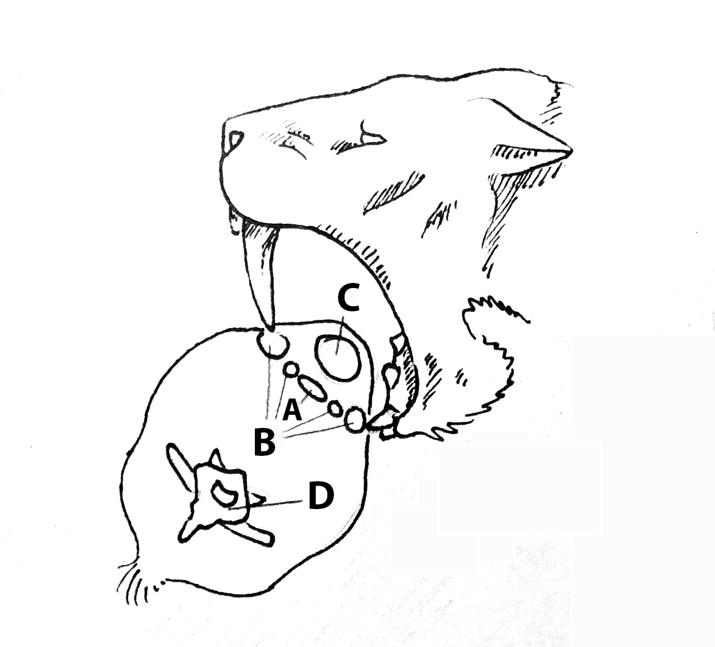 a drawn image with sharpie and pen, uploaded to a computer through a camera. diagram of Megantereon using the throat-shearing concept to kill a horse (throat seen in cross section) with major blood vessles, windpipe, vertebrae, and eosophagus labled with letters A to D.